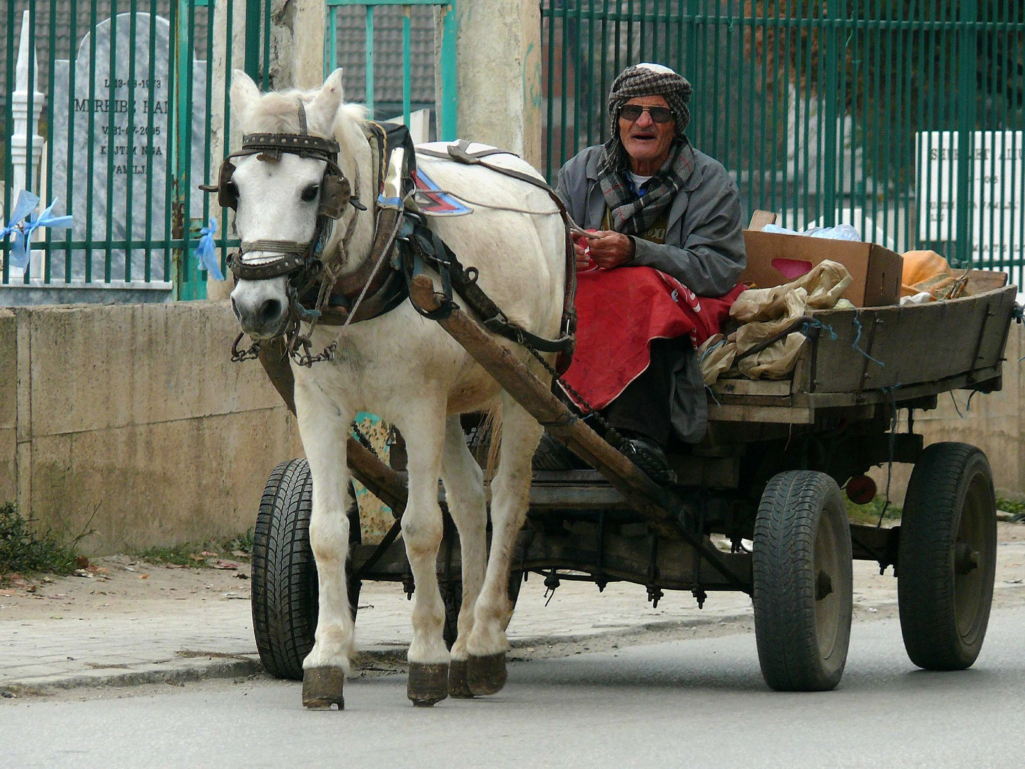 Albanian with Horse & Cart at the Muslim Cemetery, Tetovo